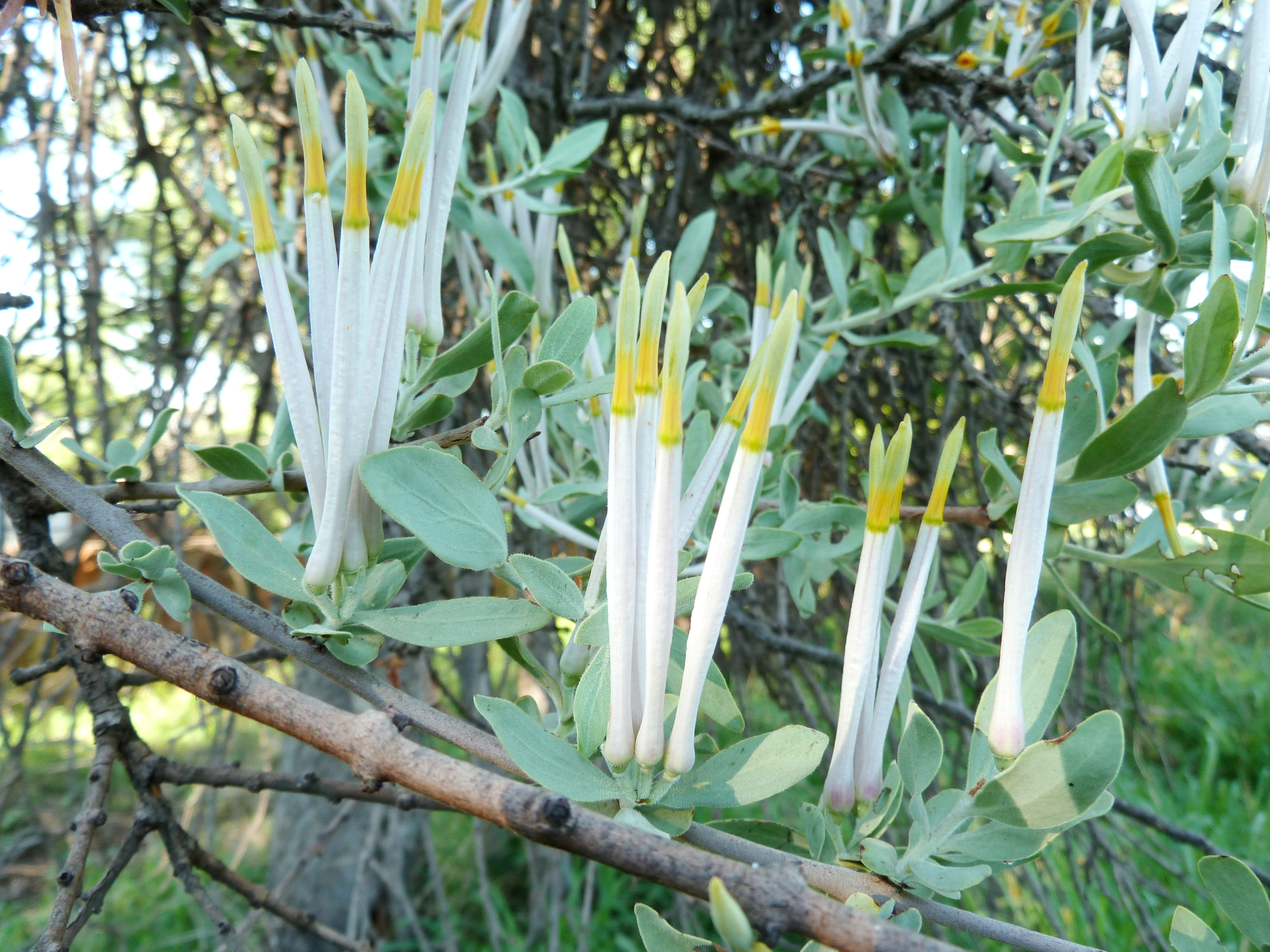 Unopened flowers of the Natal mistletoe, growing on Acacia caffra, at Seringveld near Pretoria